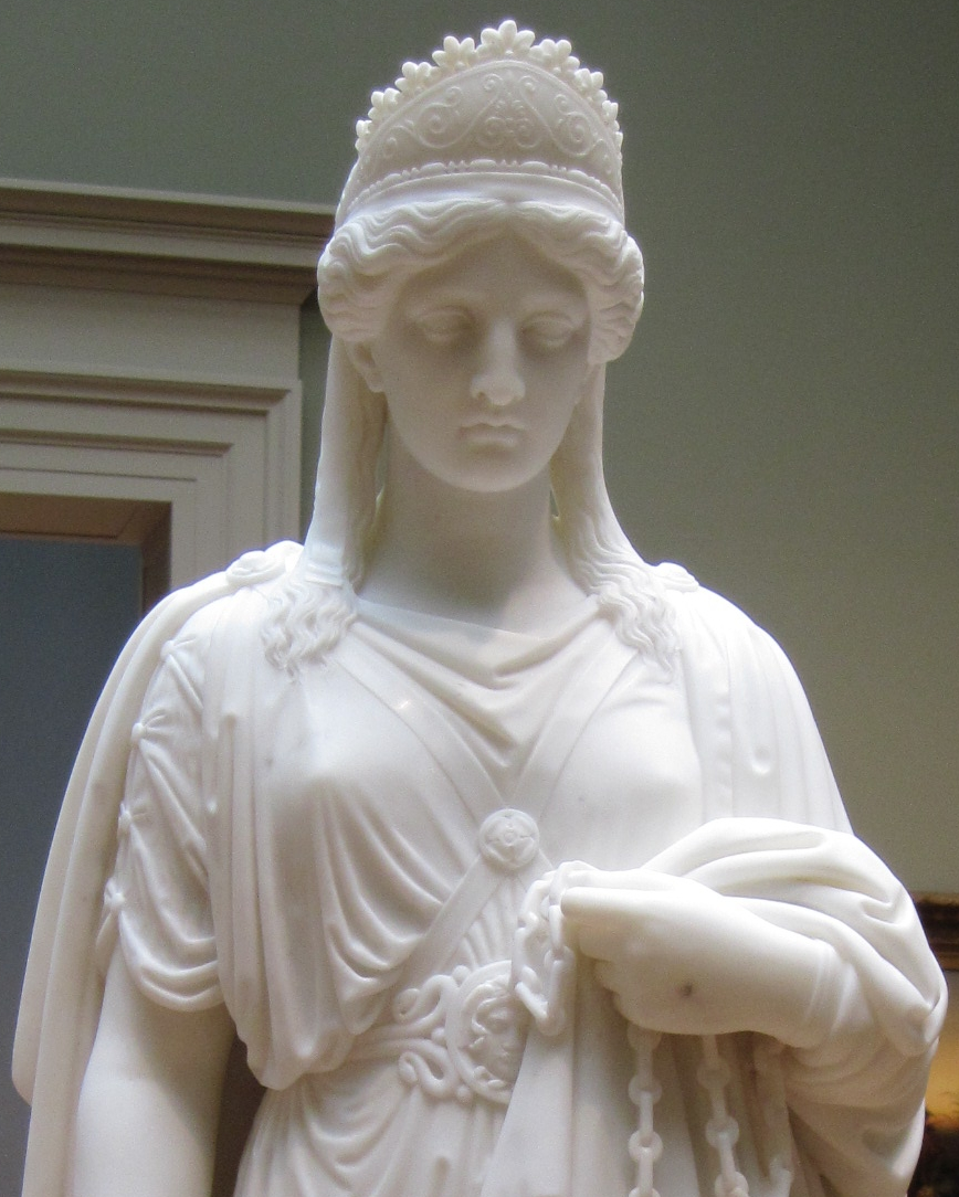 Marble statue of Zenobia in chains.